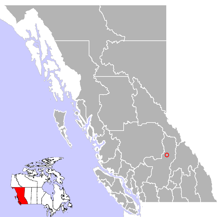 Location of Clearwater